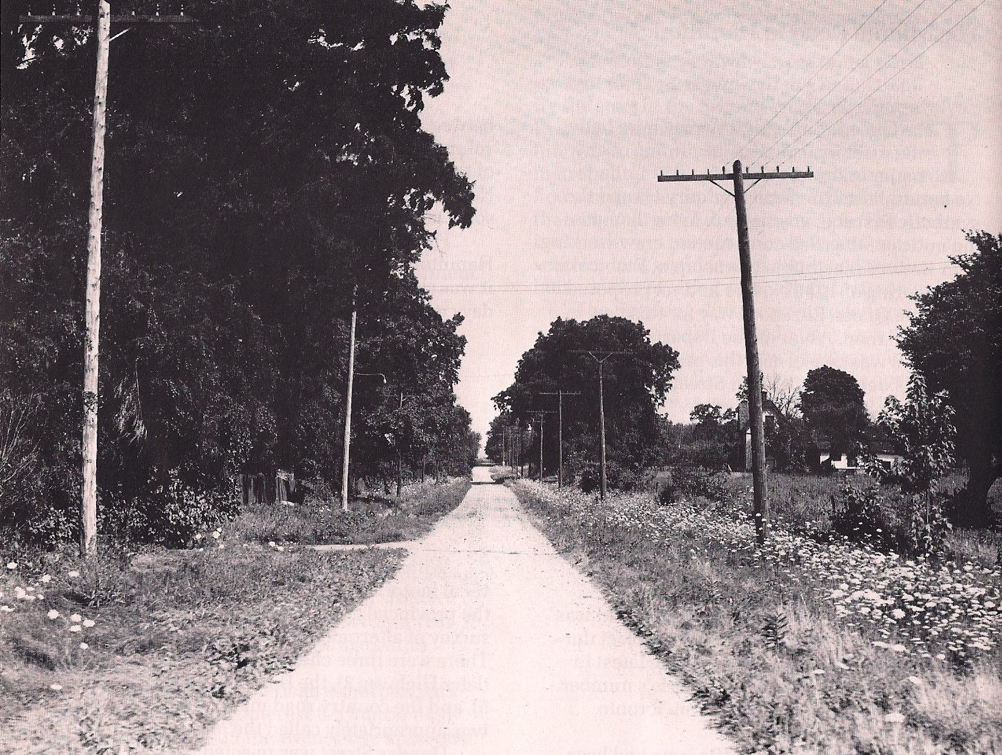 A photo of Middle Road between Toronto and Hamilton in Ontario, prior to its widening into The Middle Road. Today, the Queen Elizabeth way occupies this location.